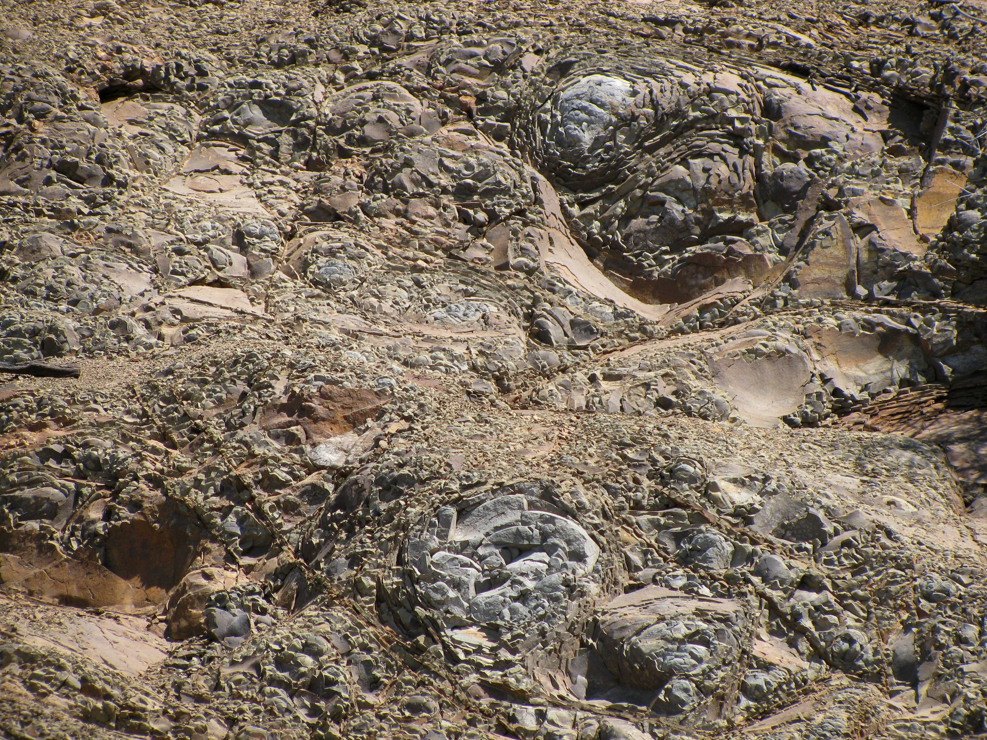 Bedding in the Cozy Dell Shale; photo by self, Santa Ynez Mountains, CA, 9/26/10.